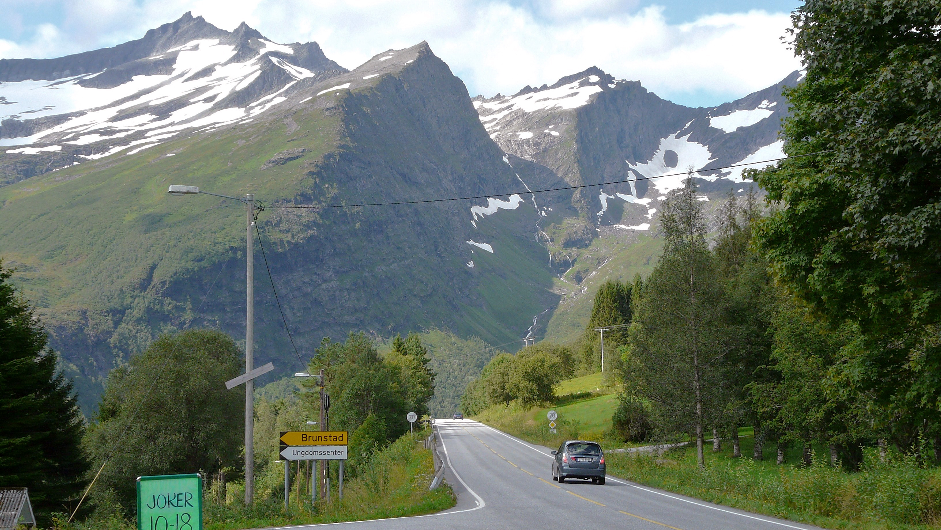 A view to Velledalen towards southwest from Riksveg 60 in 2008 August.